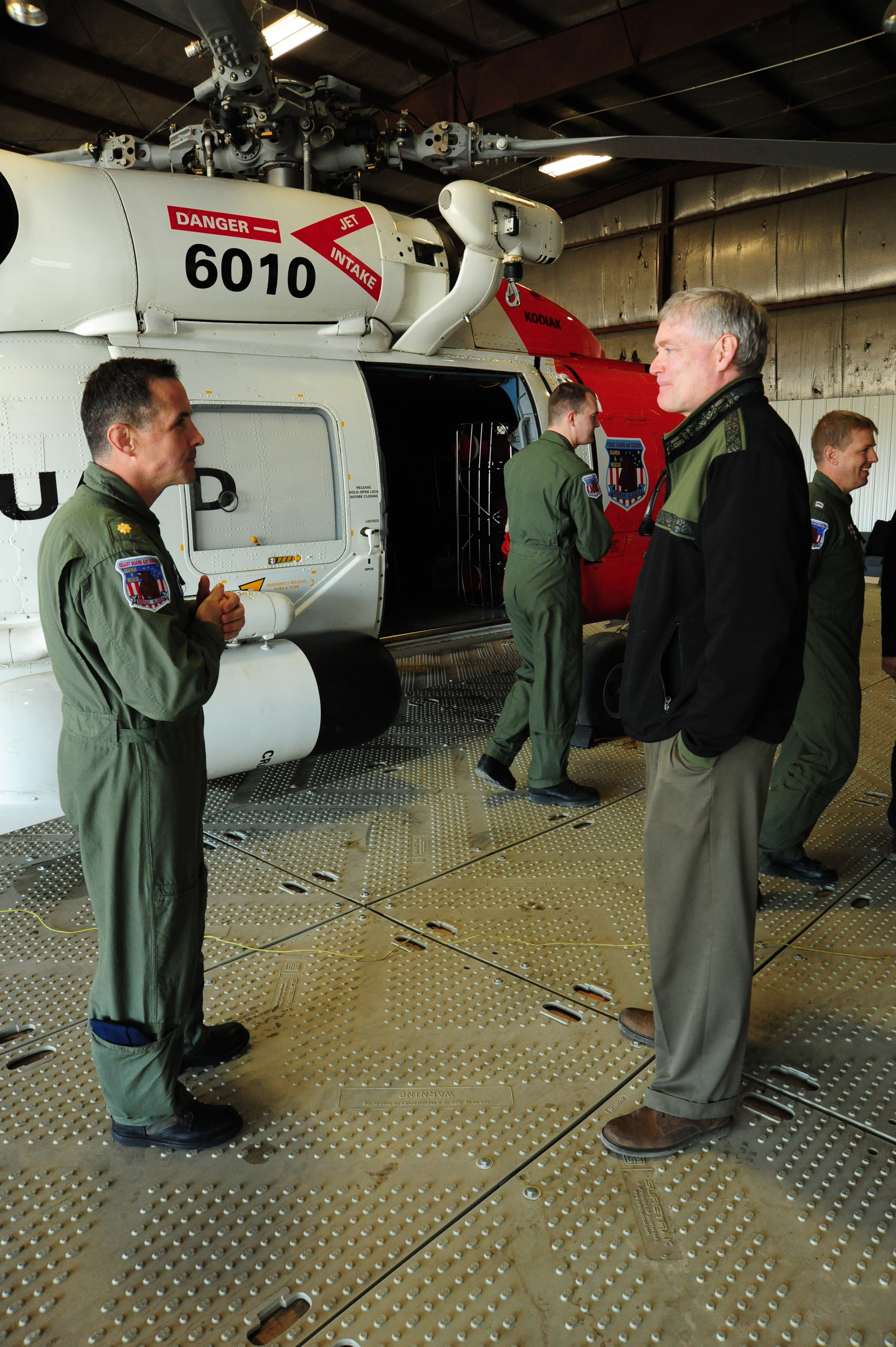 U.S. Coast Guard Lt. Cmdr. Tom Combs, an MH-60 Jayhawk helicopter pilot assigned to Coast Guard Air Station Kodiak, Alaska, gives Alaska Lt. Gov. Mead Treadwell a tour of the helicopter hangar at Coast Guard Forward Operating Location Barrow, Alaska, July 23, 2012. Two helicopters with supporting air, ground and communications crews were moved 900 miles north from Kodiak to Barrow to support the summer operational phase of the Arctic Shield 2012. Arctic Shield is a U.S. Coast Guard-directed exercise in conjunction with federal, state and tribal officials designed to test the Spilled Oil Response System as well as strengthen law enforcement and search-and-rescue capabilities in the Arctic regions of Alaska.